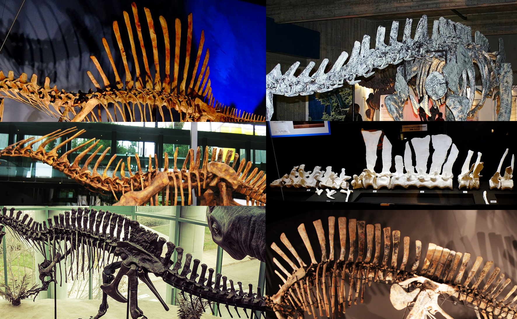 Photos of neural spine sail variation in different dinosaur clades, clockwise from bottom left: Acrocanthosaurus, Amargasaurus, Spinosaurus, Limaysaurus, Ichthyovenator, and Ouranosaurus.